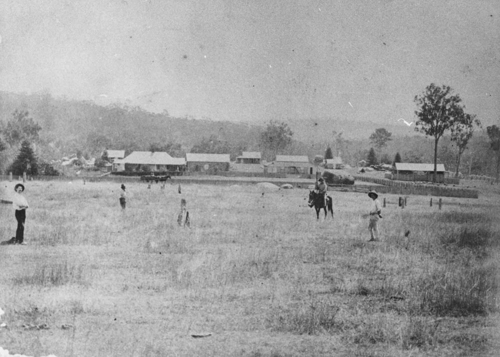 Taromeo Homestead complex